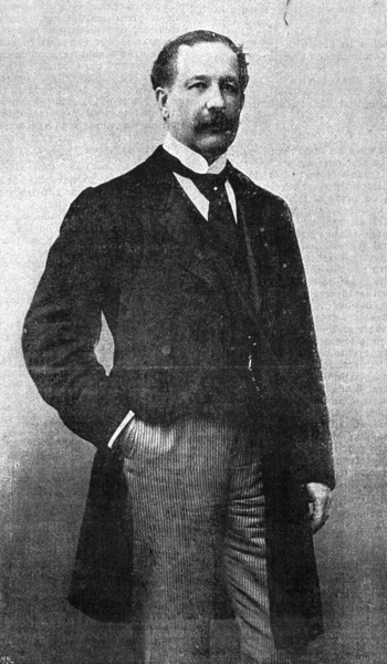 William O'Shea (1840-1904)